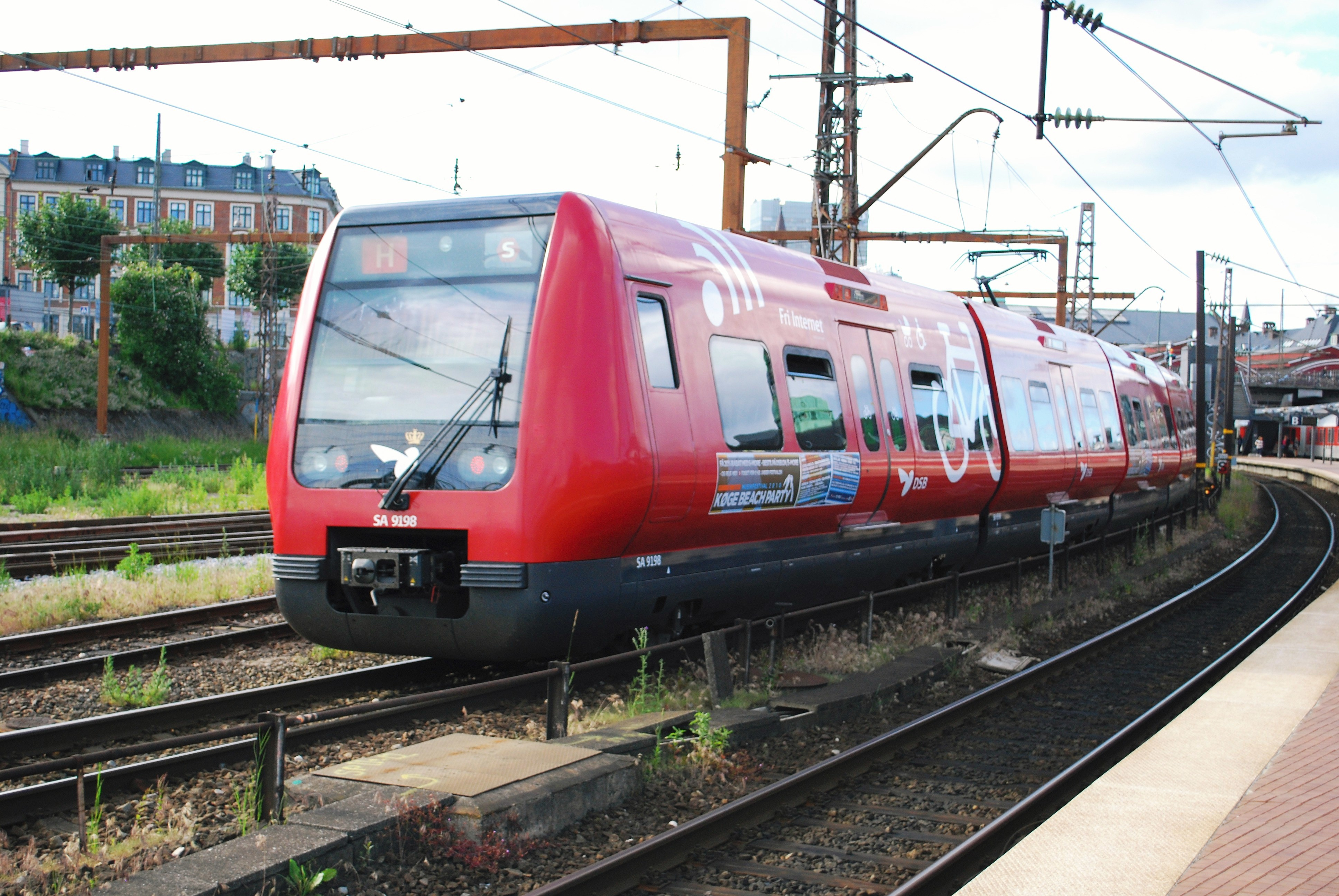 SJ Alstom-LHB/Siemens 1.5 kV DC "S-Train" 8-car articulated emu No.9198 on an "H" line S-TOG service approaching Kobenhavn, 6/10.